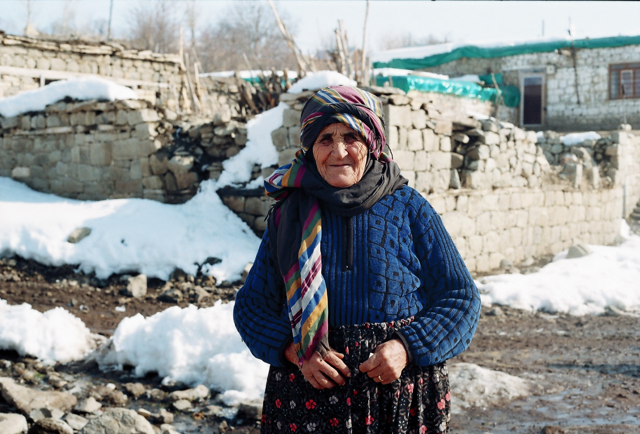 Taçkırage ra "Qereceice", An Old Zazaish Woman "Qereceice" from Tunceli (Turkey)